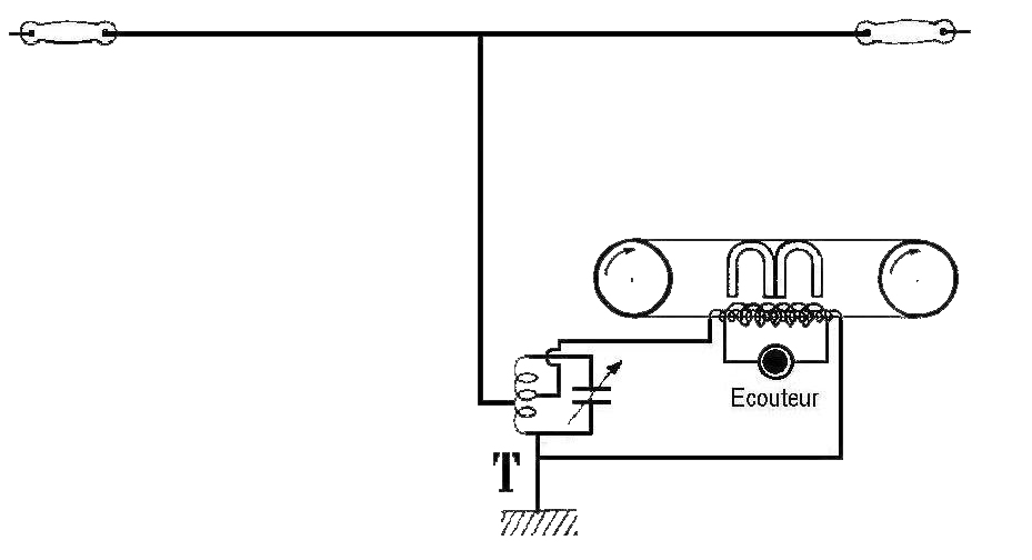 Marine radio